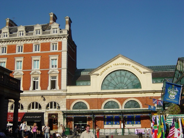 Summary: London Transport Museum Author: SolGrundy